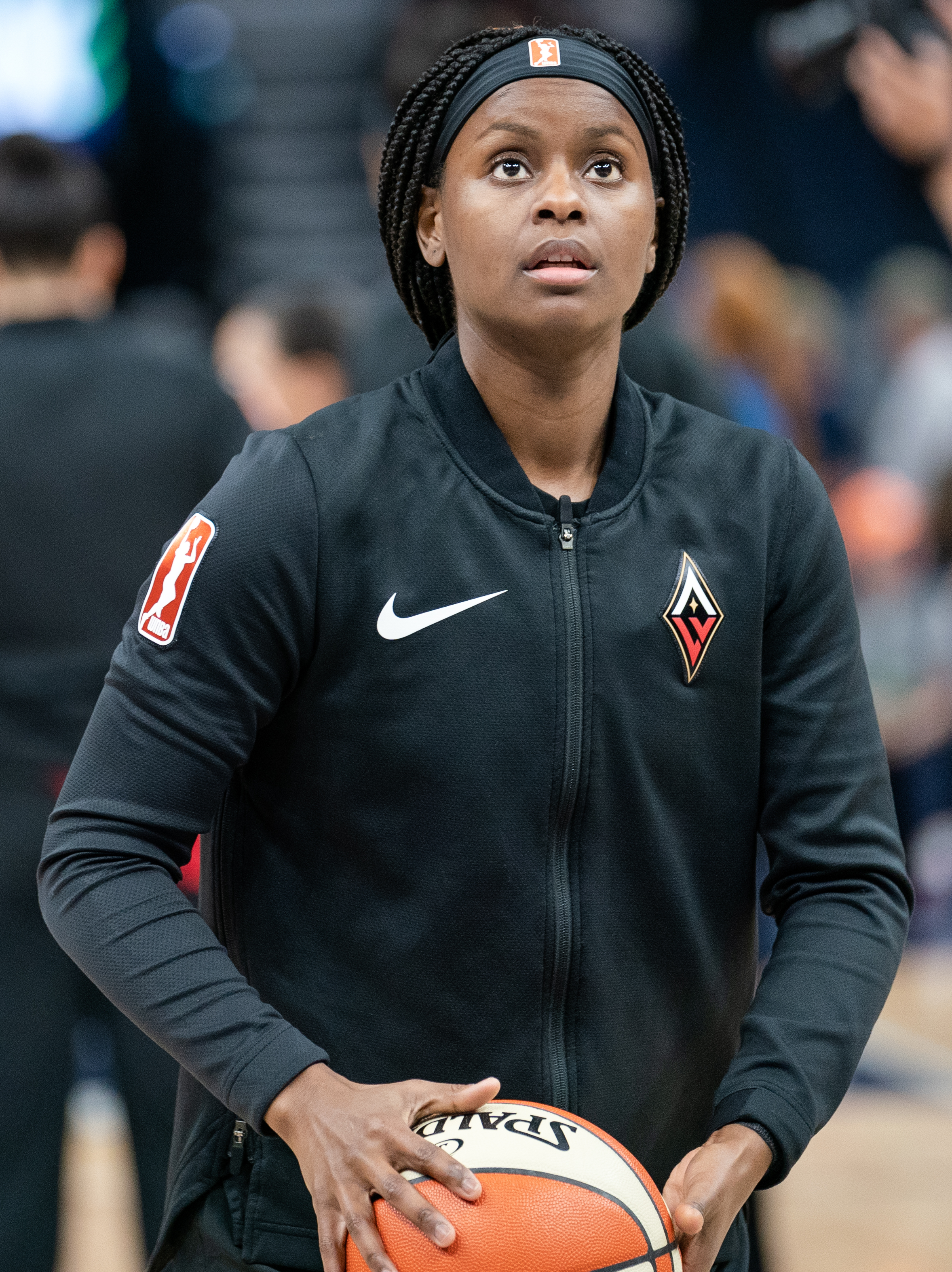 Las Vegas Aces player, Sugar Rodgers shooting a ball during warmups